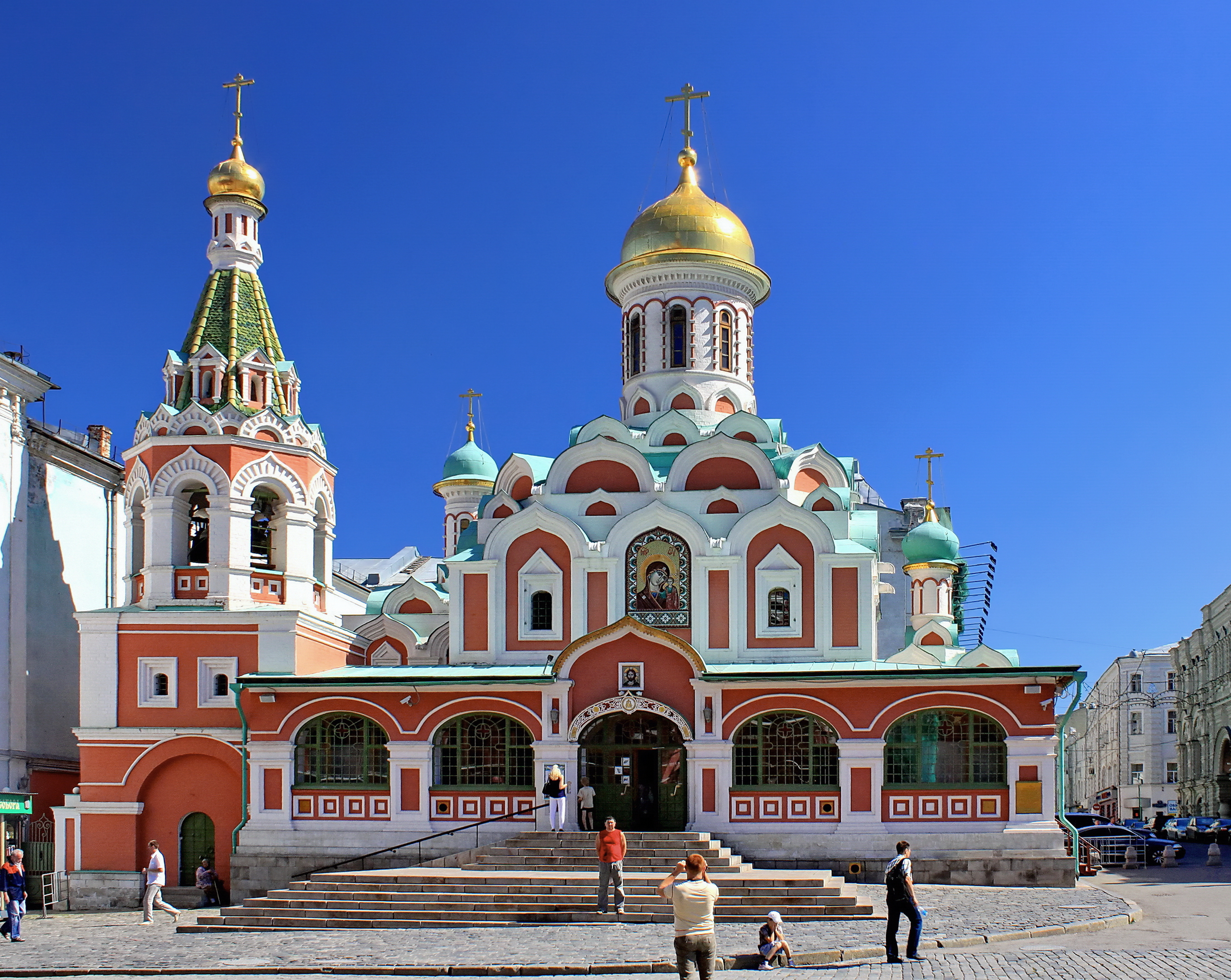 Cathedral of the Theotokos of Kazan. Red Square, Moscow, Russia.